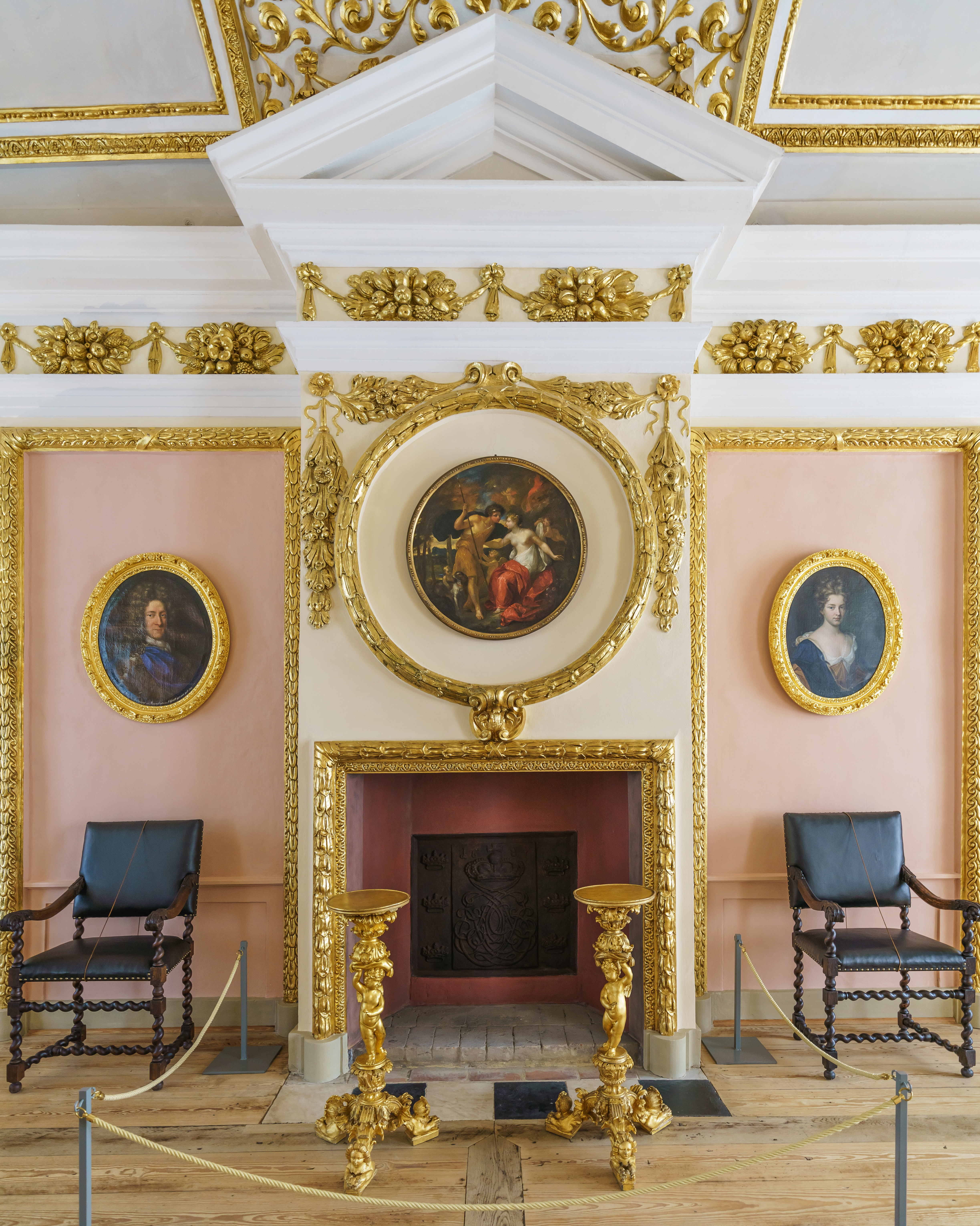 Interior of Caputh Castle near Potsdam, Germany